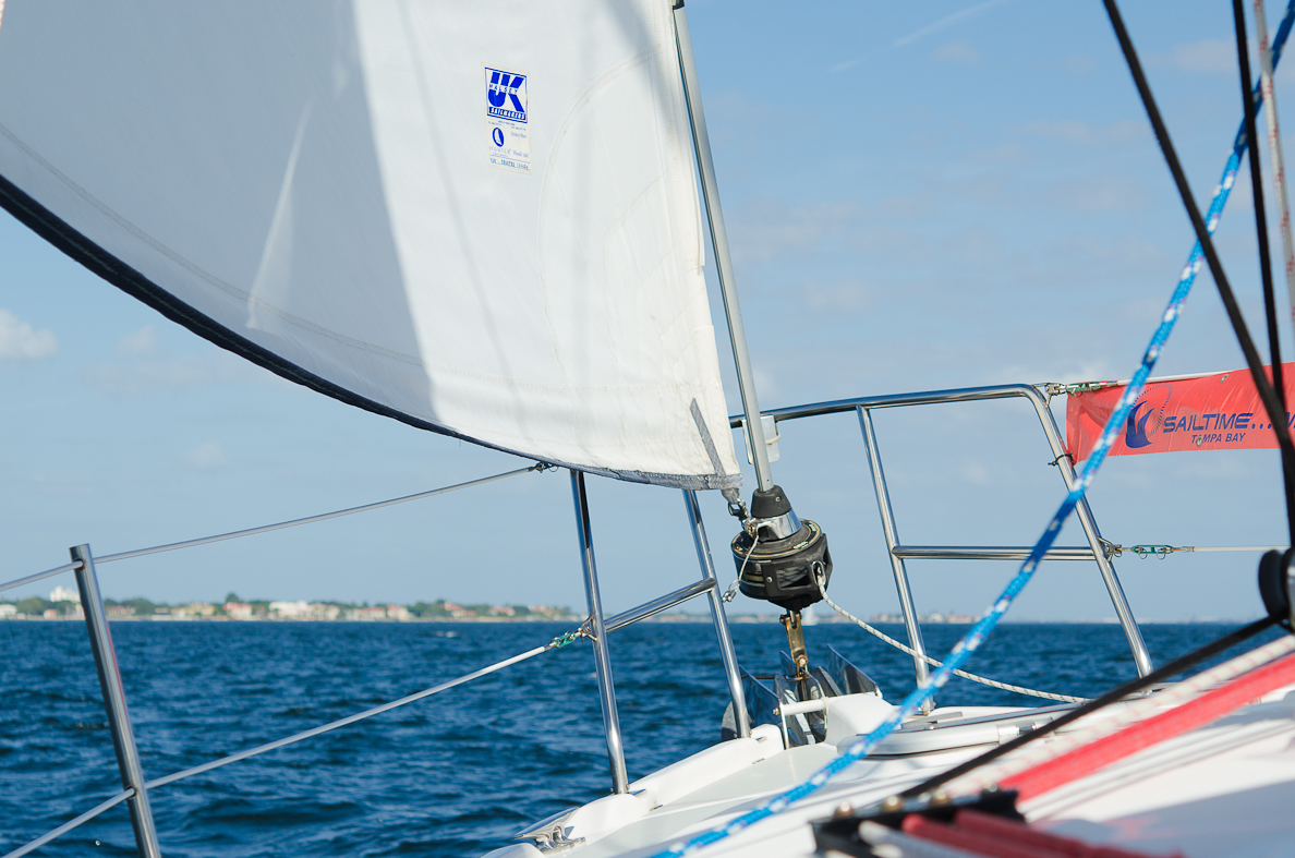 genoa rollerfurler